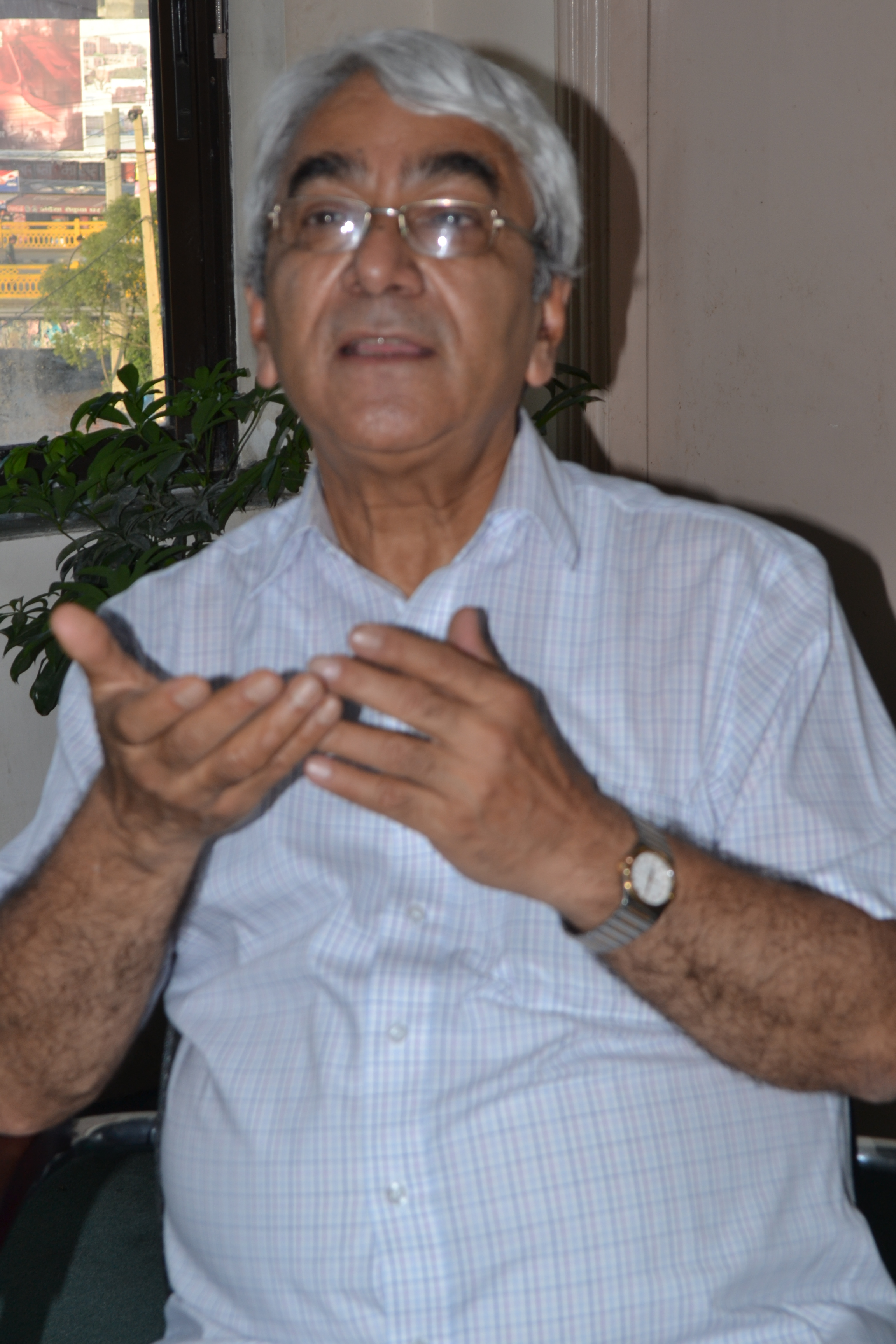 Da.Bhola Rijal is a multitalent person for Nepal